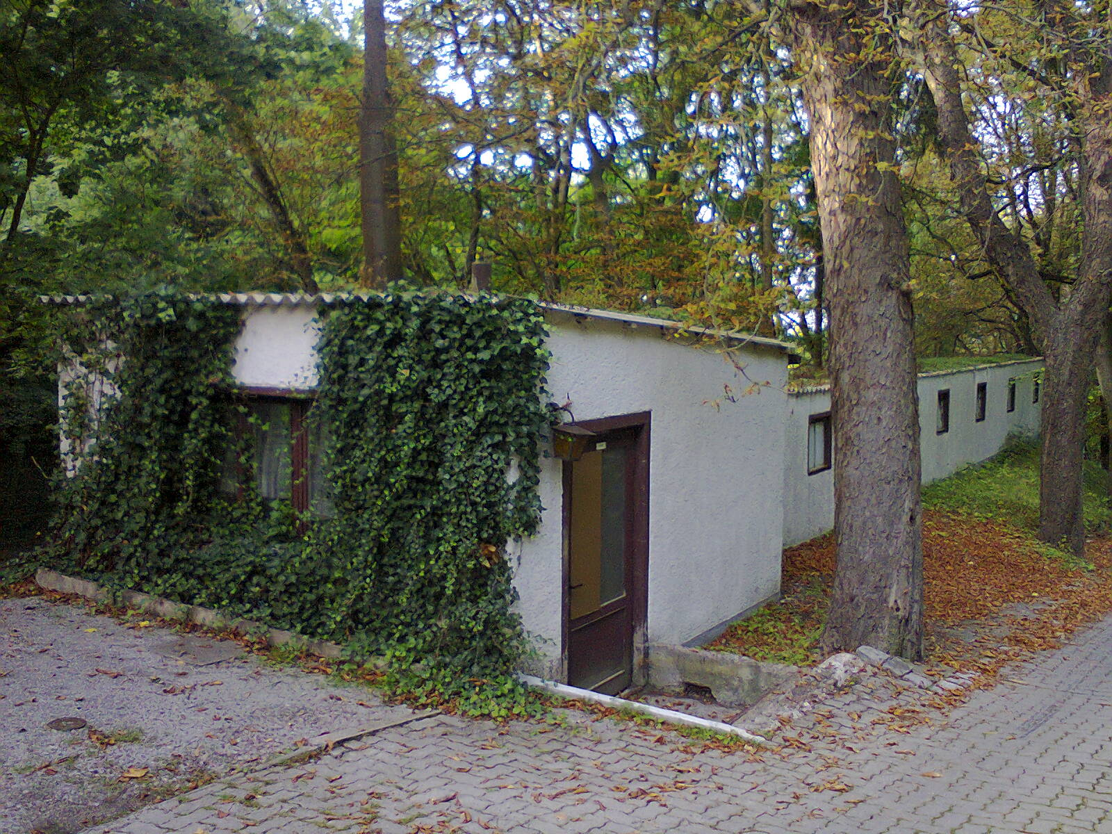 Hopfengrund Arnstadt, Kegelbahn